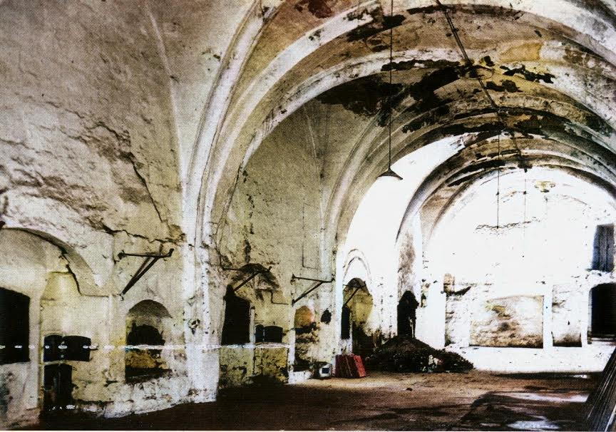 Forni della Signoria